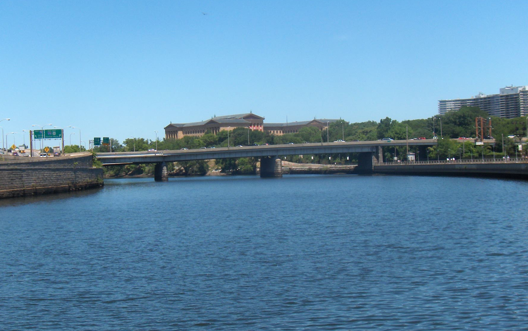 Vine Street Expressway Bridge, built 1959, reconstructed 1989, a steel girder and floorbeam system design, carries I-676 (Vine Street Expressway) over the Schuylkill River, CSX tracks, N. 24th St. ramp in Philadelphia